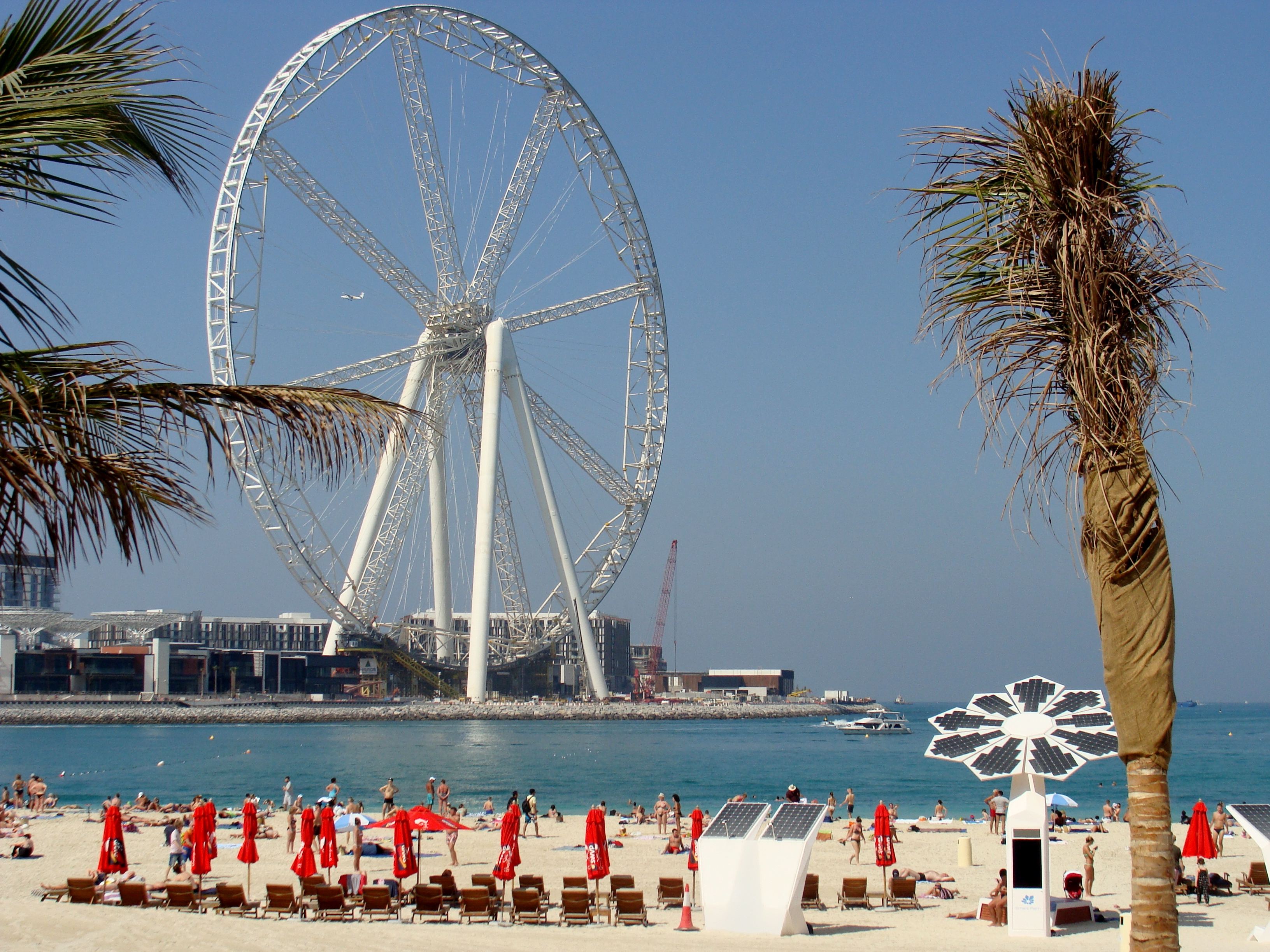 Ain Dubai ferris wheel in Dubai